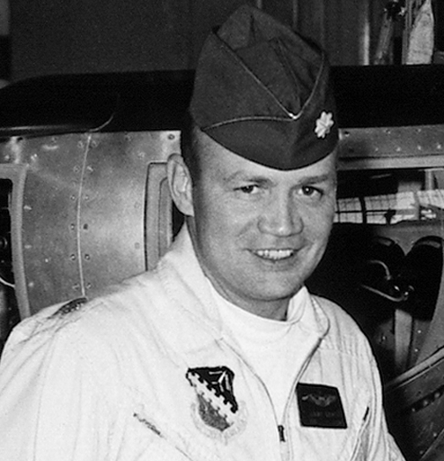 Cropped version of original photo for Infobox photo in Jerry Gentry article. Posing for this photo in front of the M2-F3 are (Left-Right) Air Force pilot Captain Jerauld Gentry, NASA pilots John Manke and William H. Dana. Kneeling is Air Force pilot Major Cecil Powell.